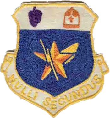 136th Air Defense Wing - Emblem